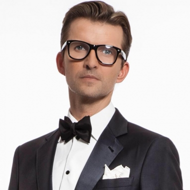 Emil Gampe Portrait